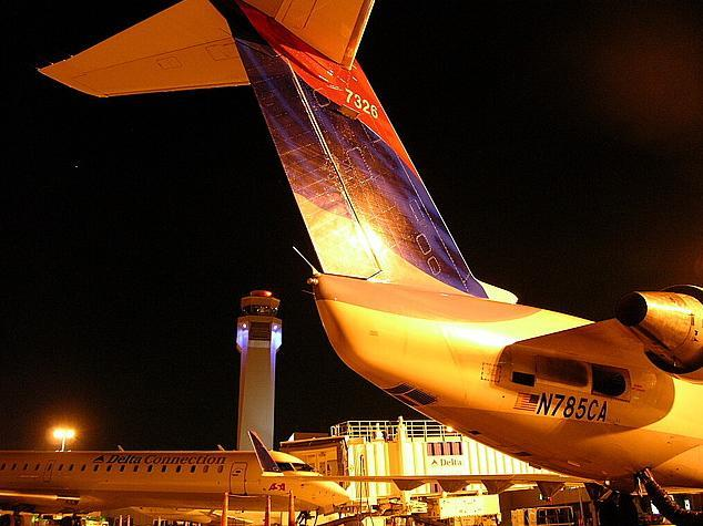 Comair CRJ-200 and ASA CRJ-700 pose with Cleveland Tower. Hiding behind is a Chautauqua E-135.